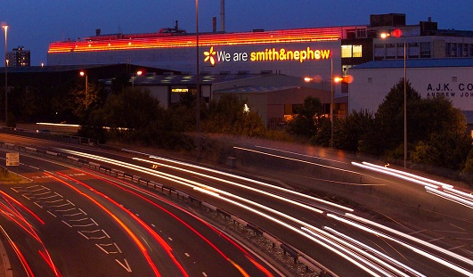 Smith and nepues hull